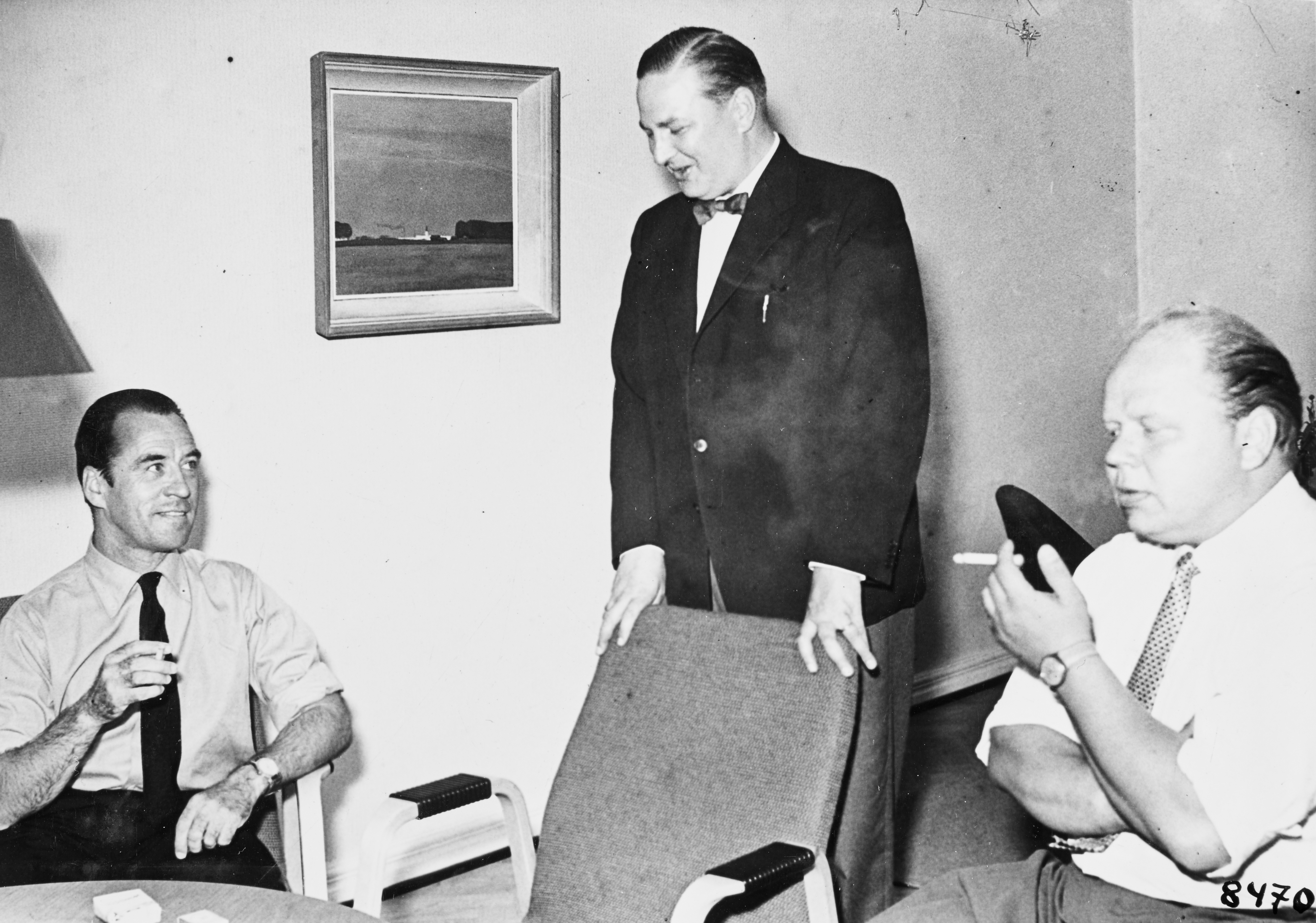 Photograph of the Finnish CEO of Kaleva newspaper Aaro Korkeakivi (1924–2001) talking with two actors from Oulu City Theater.